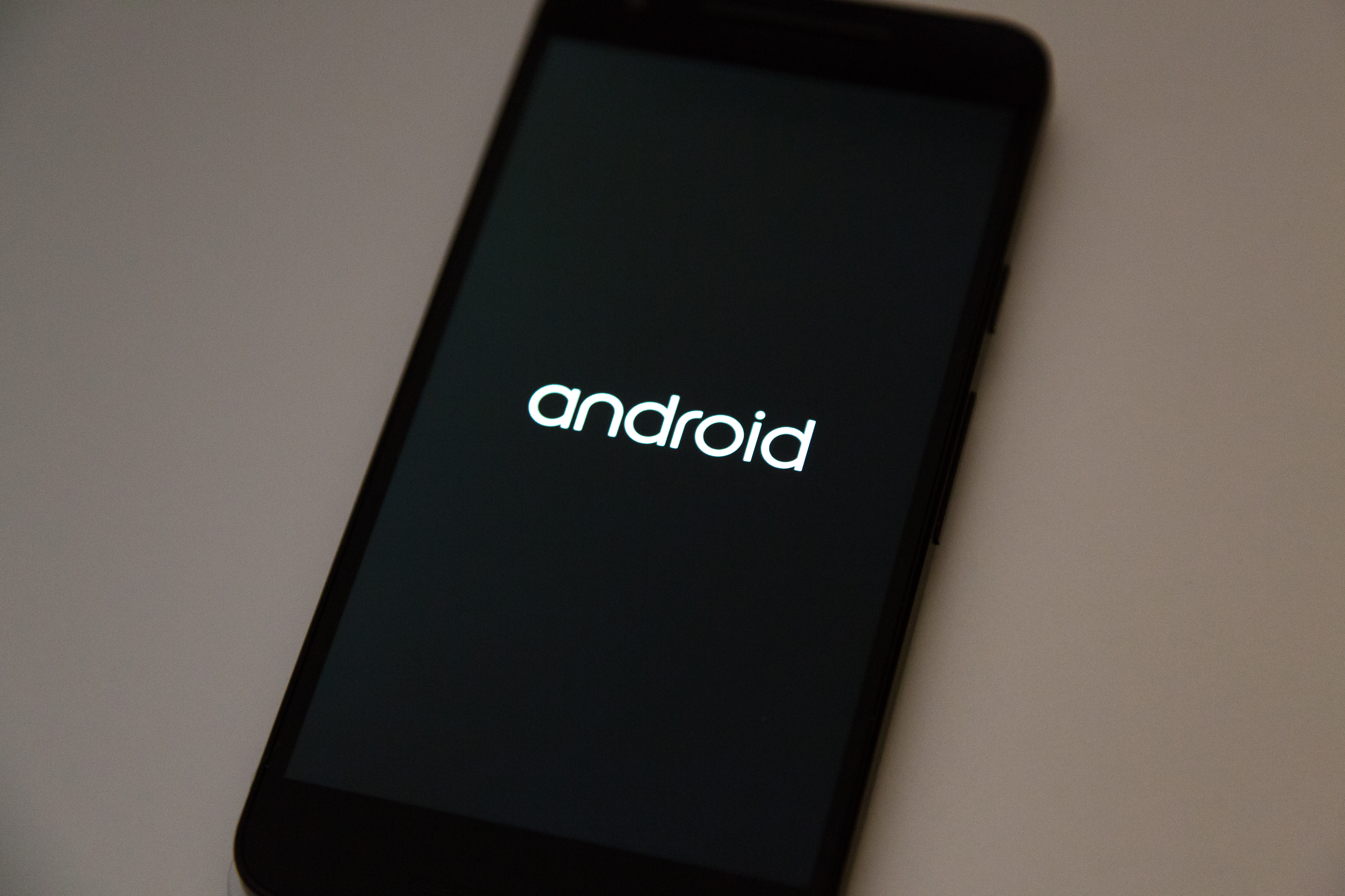 Android Marshmallow - Nexus 5X